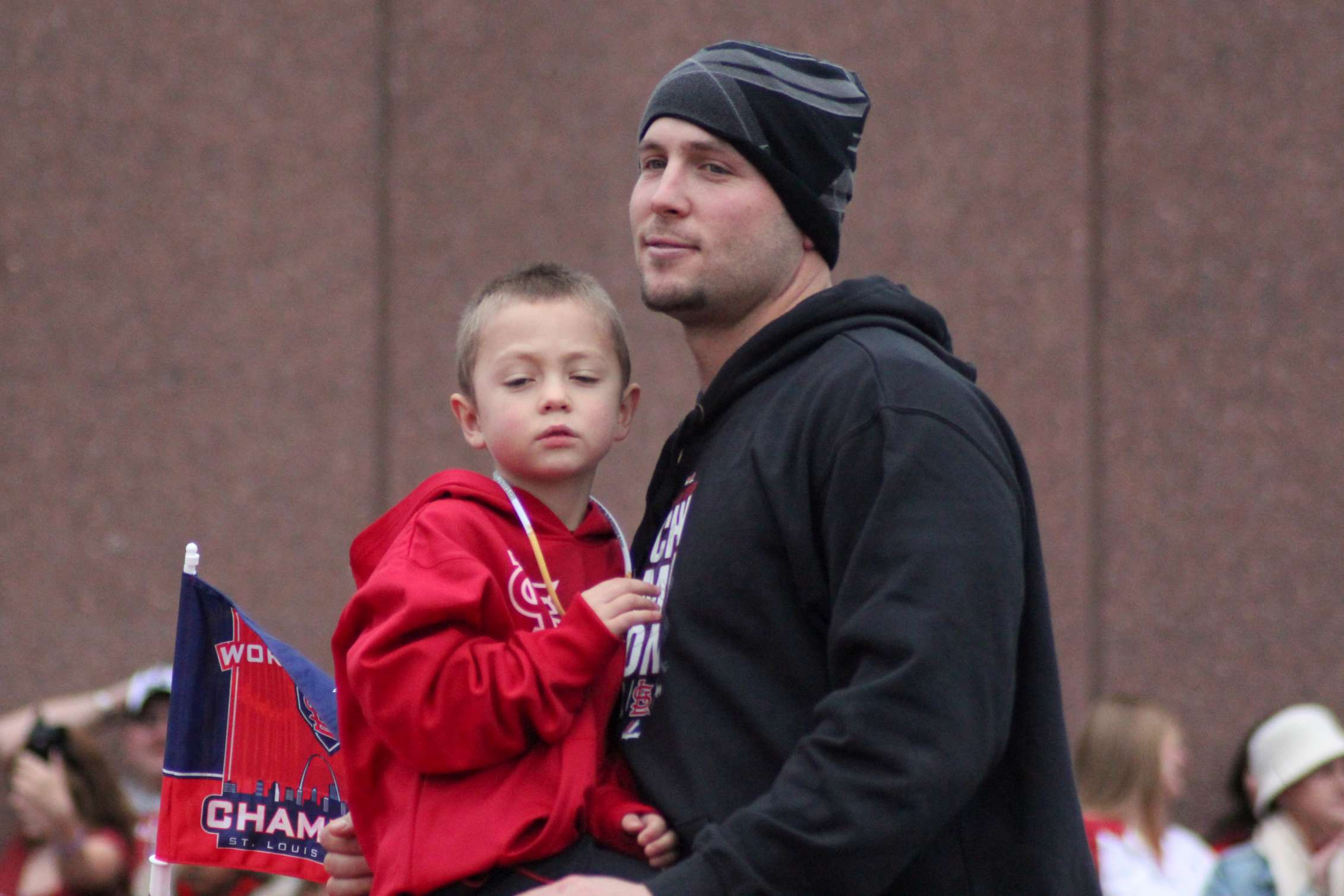 Matt Holliday during the 2011 World Series victory parade Saint Louis Oct 30, 2011.